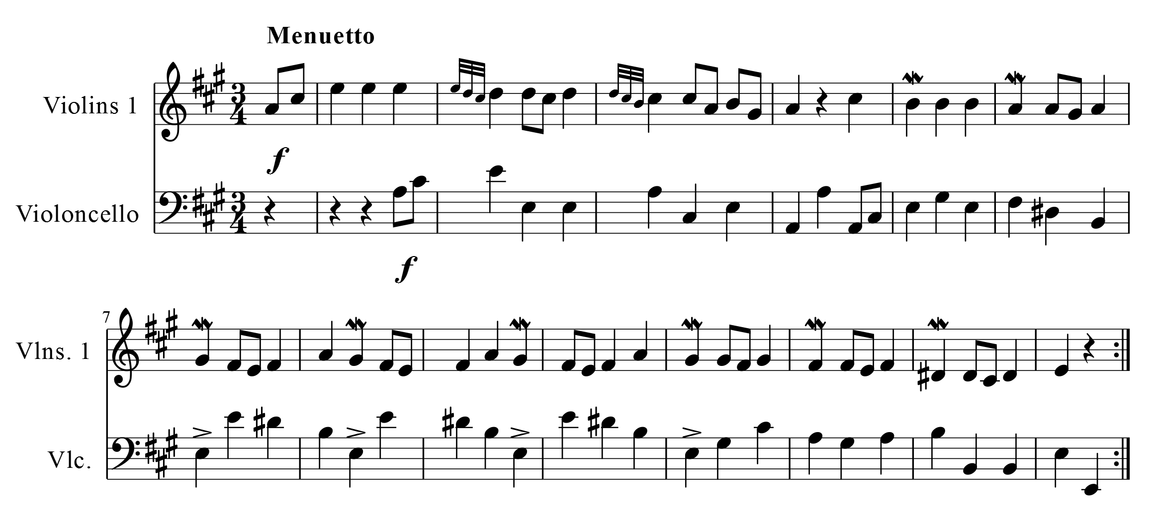 Joseph Haydn, Symphony No. 65, third movement, bar 1-14